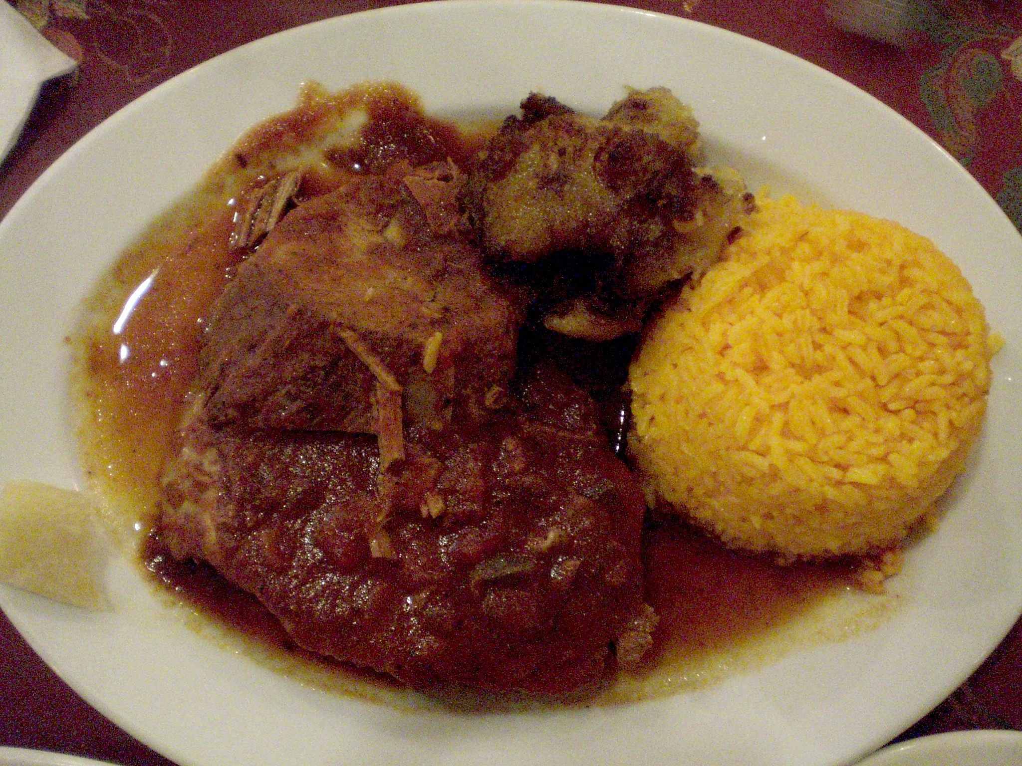 Digital photo taken by Marc Averette. Typical Cuban dish of Boliche